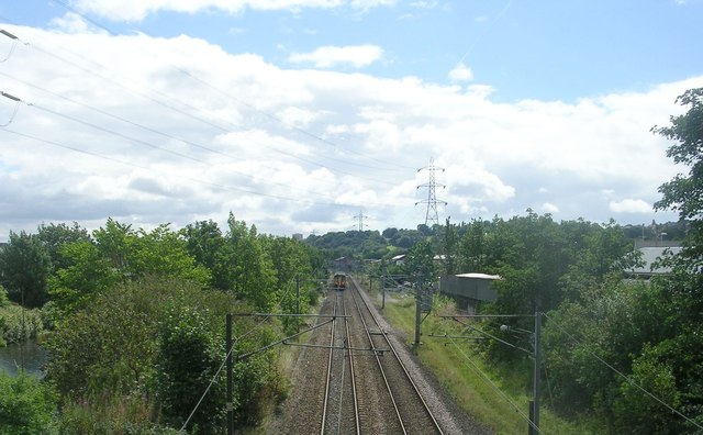 View from Kirkstall Bridge - Bridge Road